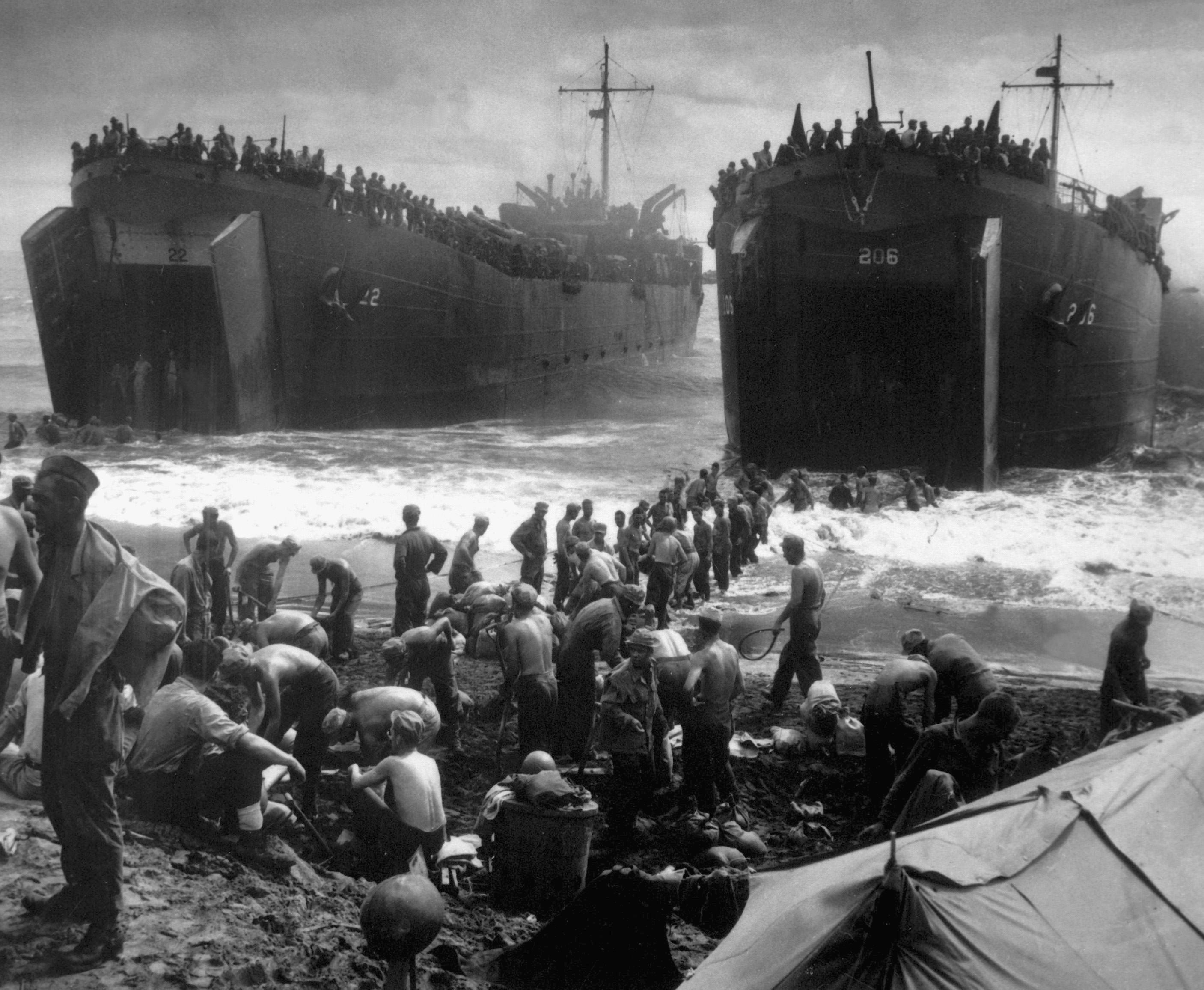 Two Coast Guard-manned LST's open their great jaws in the surf that washes on Leyte Island beach, as soldiers strip down and build sandbag piers out to the ramps to speed up unloading operations. 1944. (Coast Guard) Exact Date Shot Unknown NARA FILE #: 026-G-3738 WAR & CONFLICT BOOK #: 1210